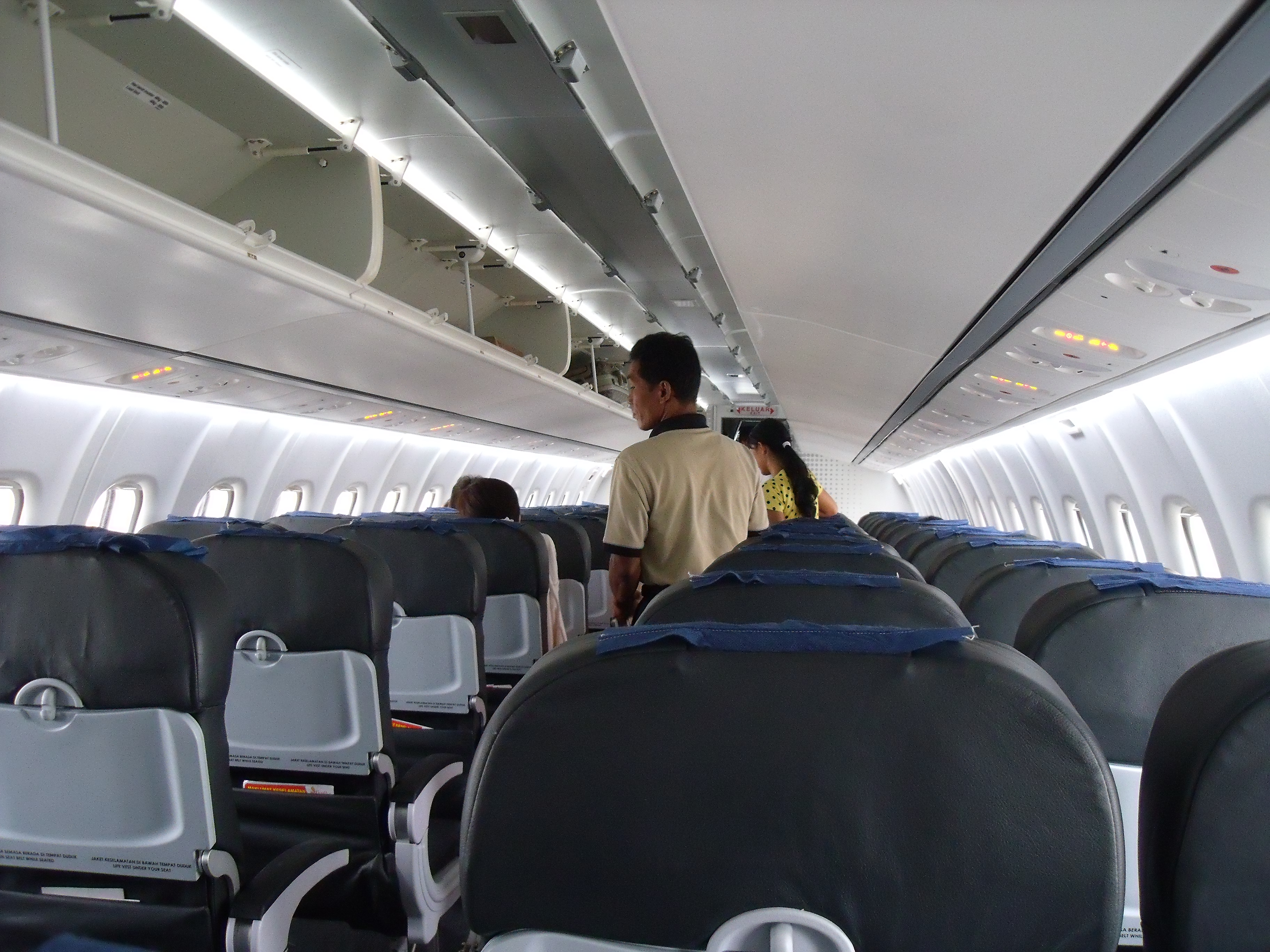 Interior of Fireflyz's ATR72-500